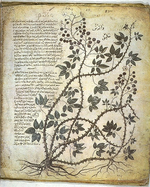 Image from the Vienna Dioscurides